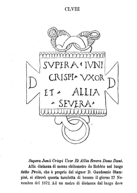 Iscrizioni antiche vercellesi bruzza luigi